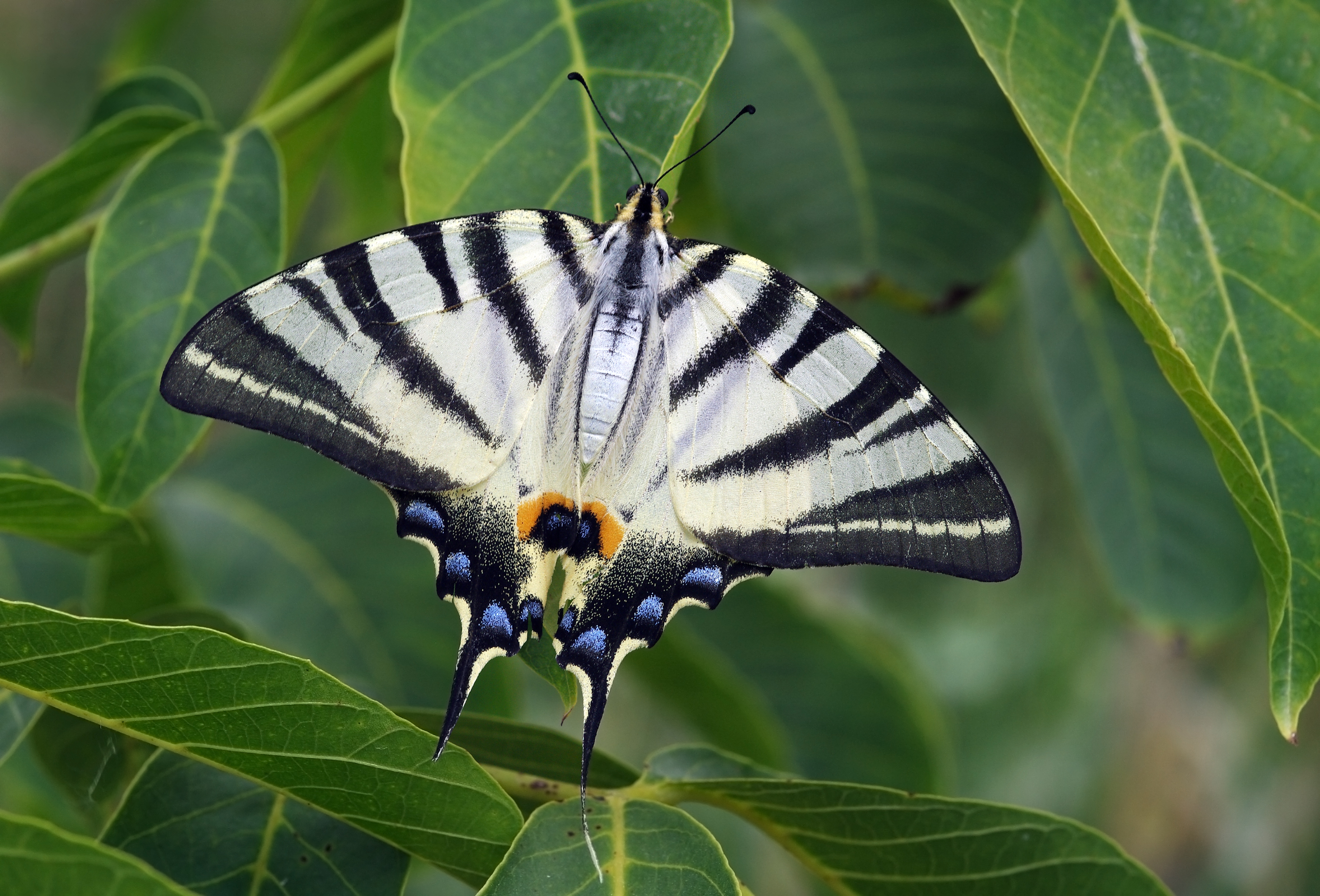 Wing upperside view of a Scarce Swallowtail (Iphiclides podalirius).